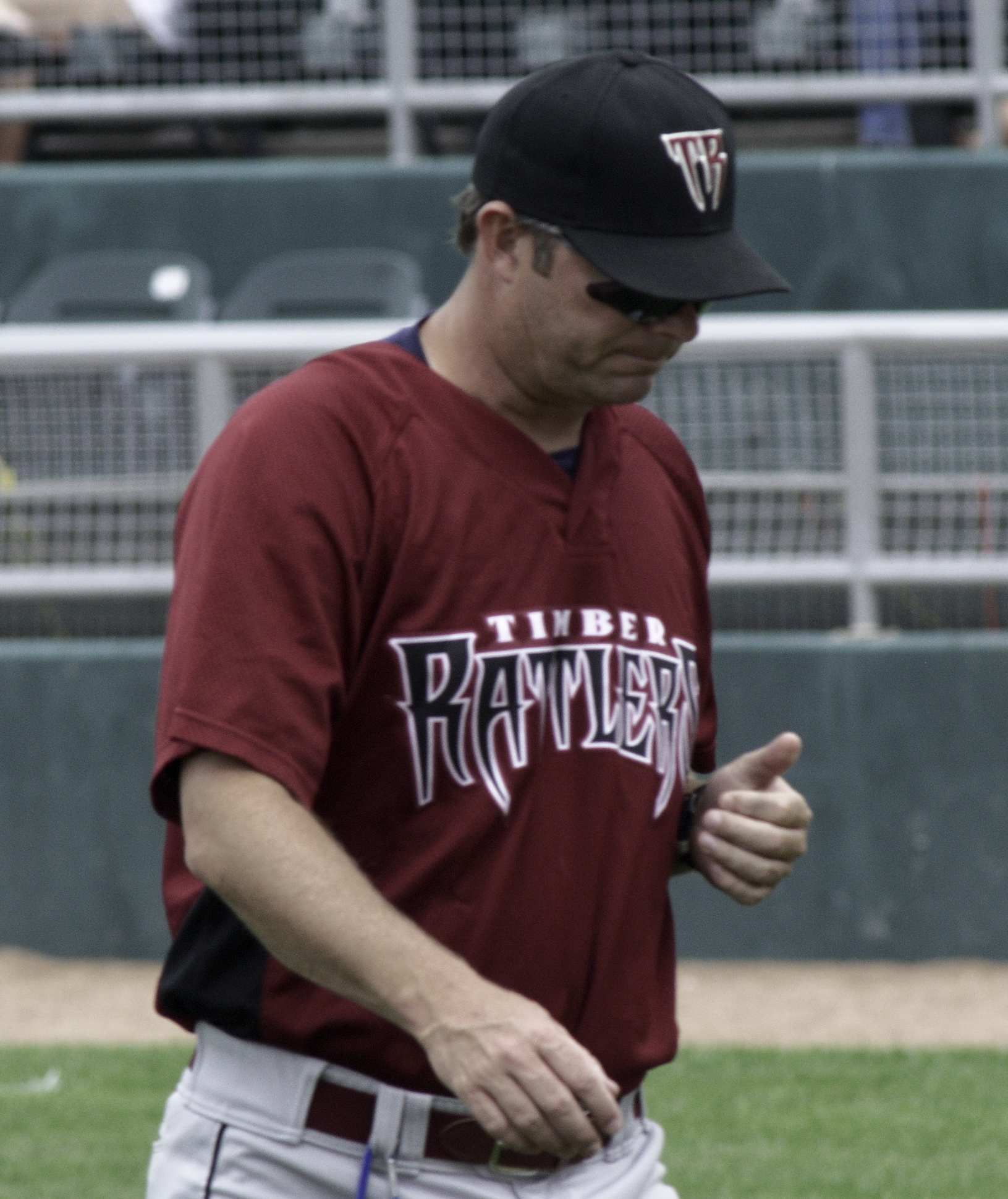 Chris Hook, pitching coach for the Wisconsin Timber Rattlers, during a game against the Lansing Lugnuts in 2011